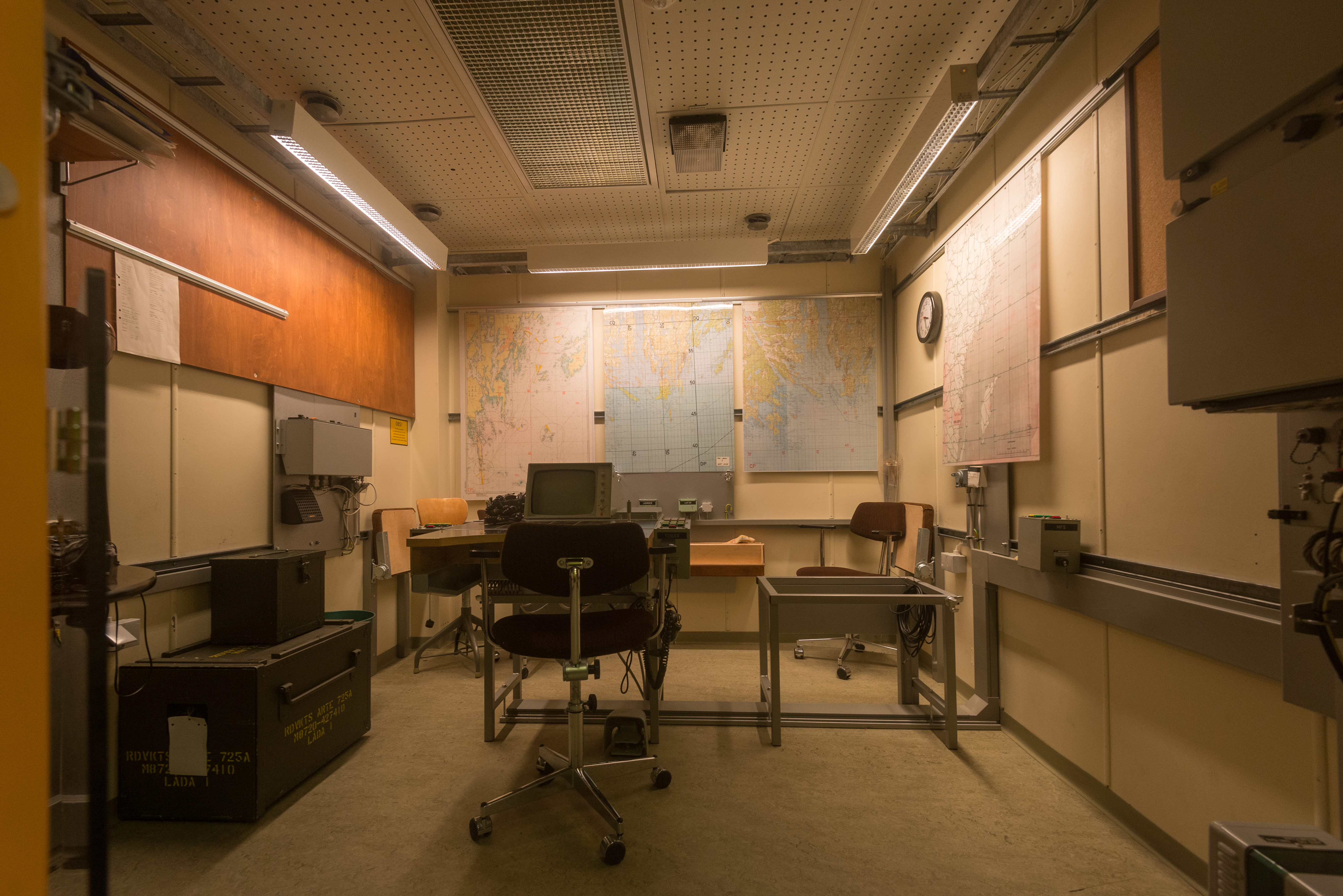 Interior of ERSTA-batteriet (Coastal artillery battery) at Landsort (Öja) in Stockholm archipelago. ERSTA was one of the Cold War’s most advanced military battery.